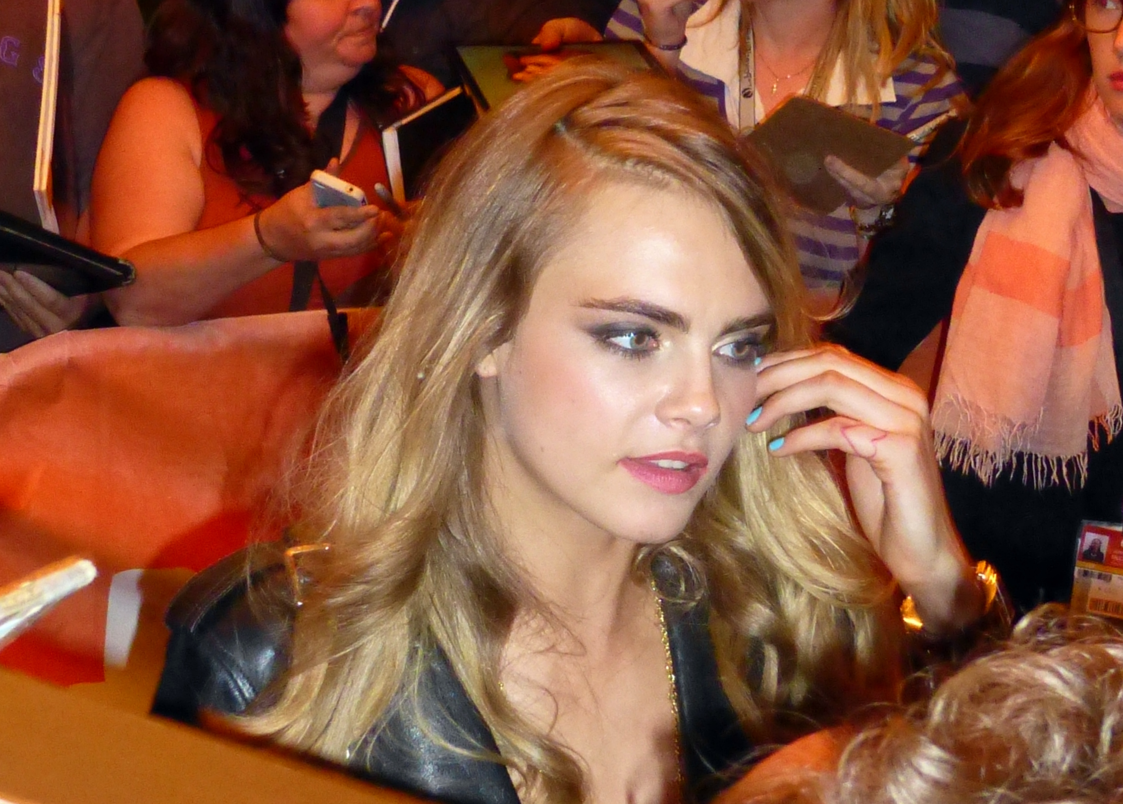 Cara Delevingne at the premiere of Face of an Angel, 2014 Toronto Film Festival